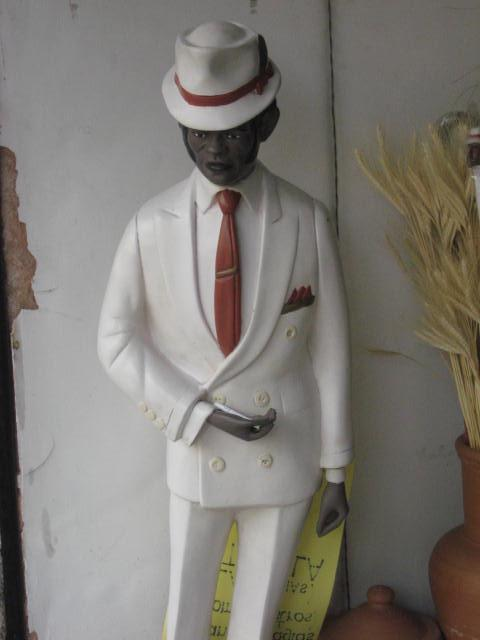 Zé Pelintra Zé Pelintra, um malandro que é cultuado na Umbanda.